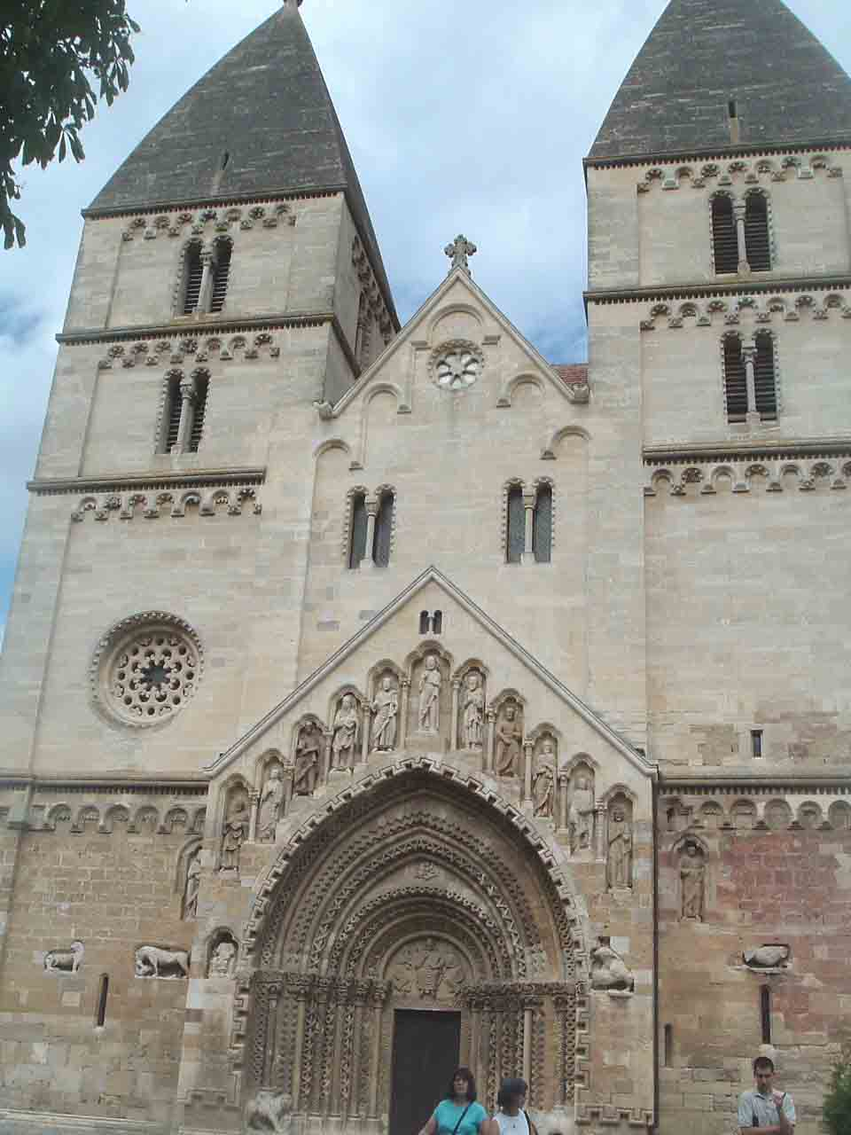 The church in Ják, Hungary